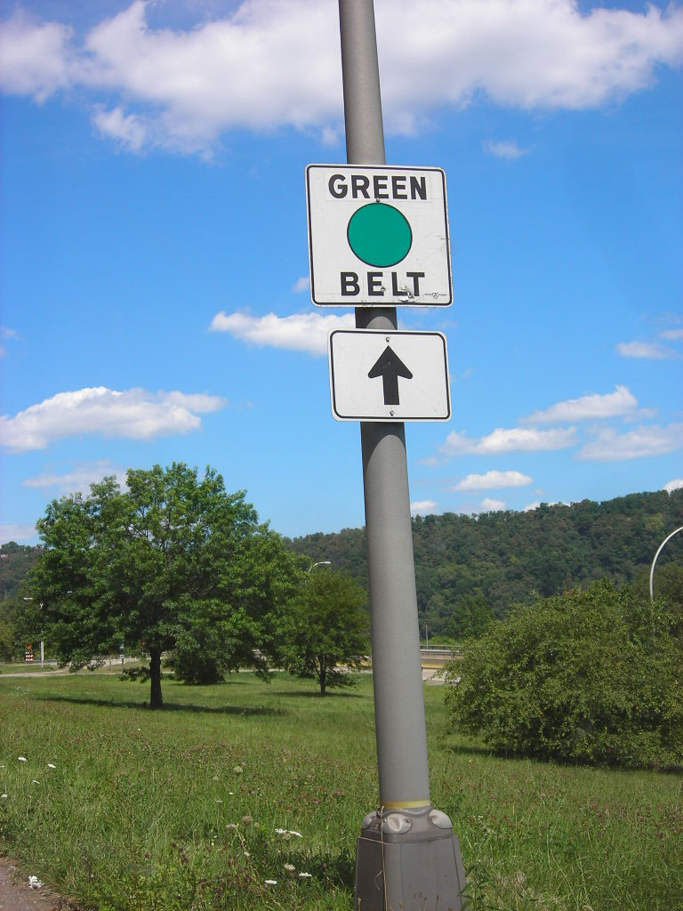 Pennsylvania State Route 837